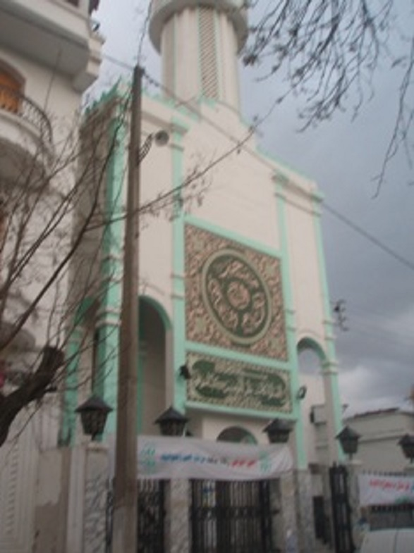 Old synagogue of Sidi Mabrouk, Constantine, circa 1935, now mosque